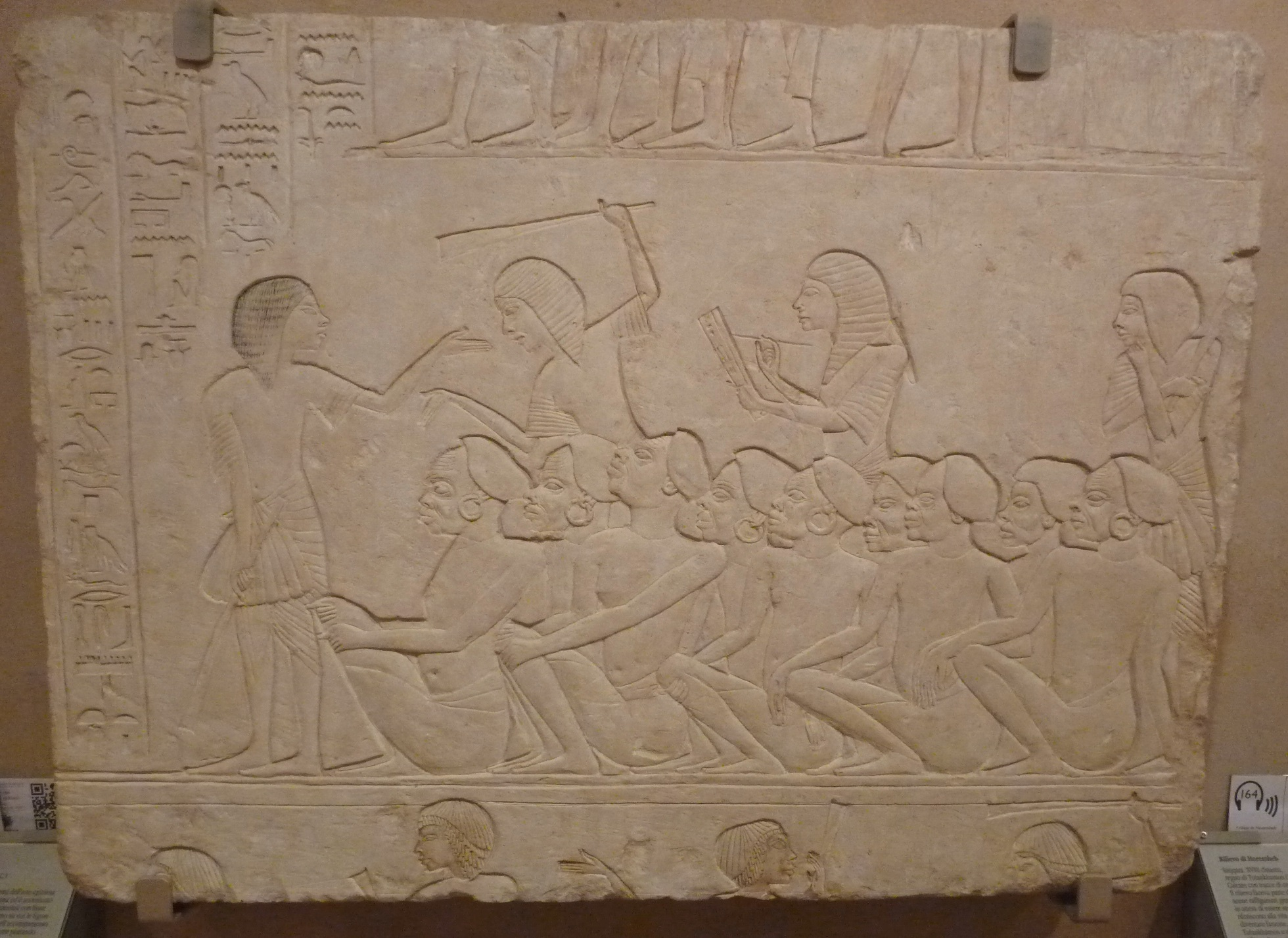 Sunk relief depicting a group of Nubian war prisoners waiting to be recorded by scribes, a scene dating back to the time when Horemheb was still a commander of the army and took prisoners after a military campaign. Limestone with traces of painting from the Saqqara tomb of Horemheb. Reign of Tutankhamun, 18th dynasty, New Kingdom. Archeological museum of Bologna (Italy), KS 1887.